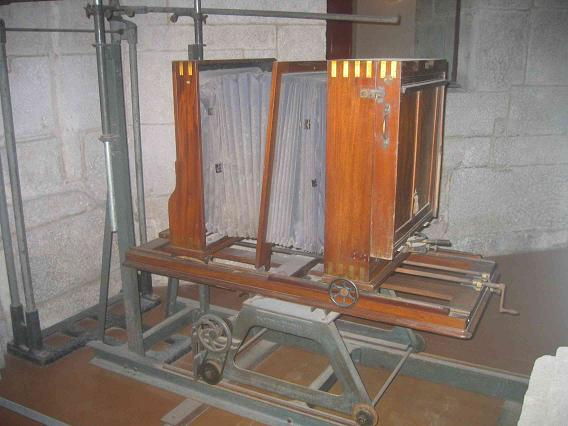 Centro Português de Fotografia - Old studio camera - Oporto - Portugal